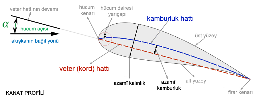 The angle of attack is measured relative to freestream velocity (measured far ahead), not local relative velocity (which varies both in direction and magnitude in the vicinity of the airfoil) ; The chord line is a straight line going from the leading edge (point of minimum radius) to the trailing edge; The mean camber line (or simply "camber line") is constituted by the midpoints of all airfoil cross-section segments perpendicular to the chord. Different definitions for the thickness Note that the thickness can be defined in several ways (see File:Airfoil thickness definition.svg). The so-called "British convention" is used here.